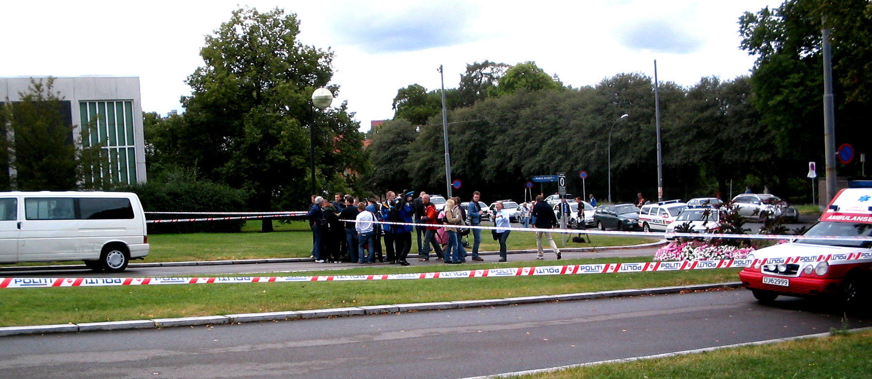 At the Munch Museum two hours after "Scream" was robbed. Journalists at work.